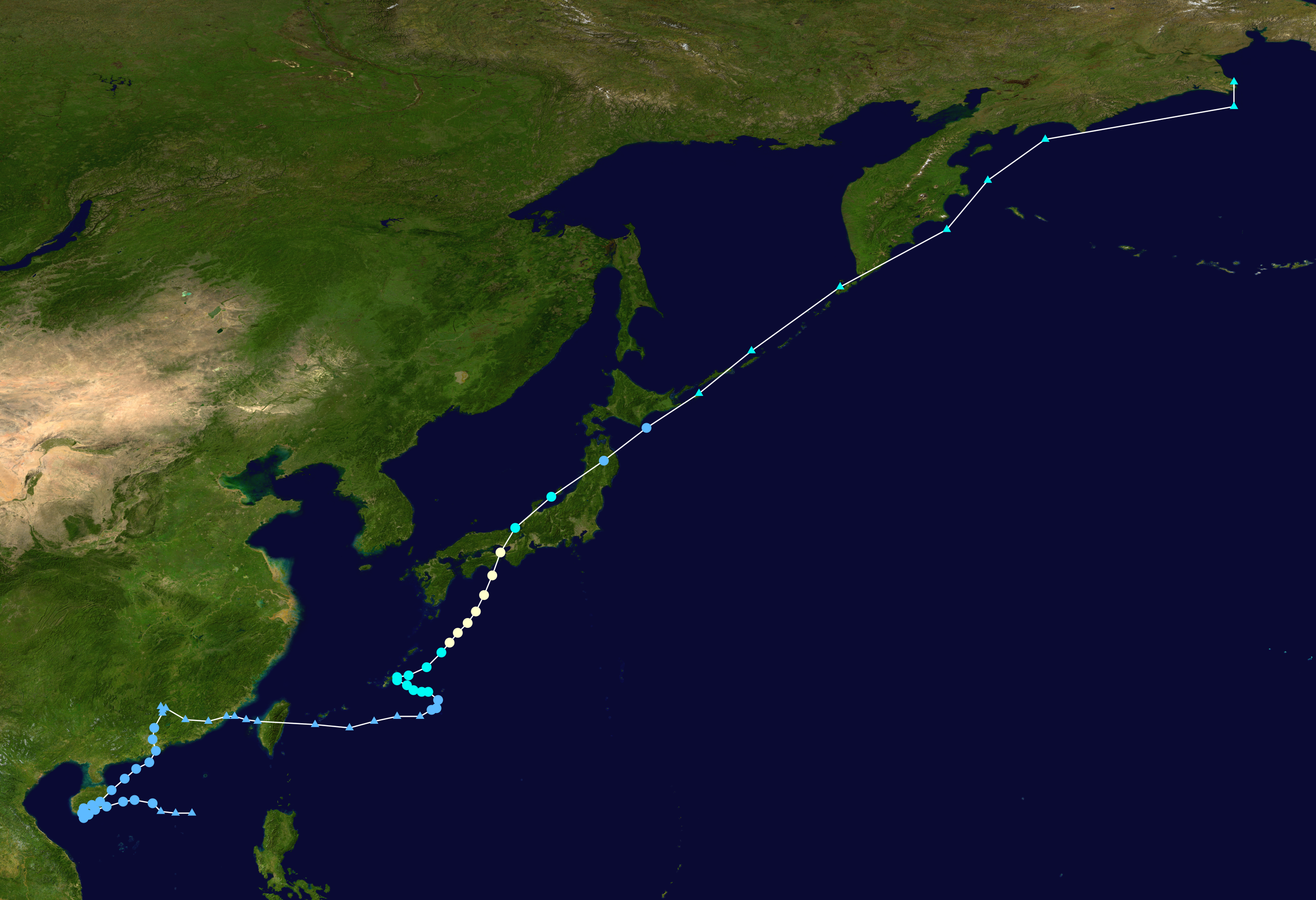 Typhoon Rita 1975 track. Uses the color scheme from the Saffir-Simpson Hurricane Scale.